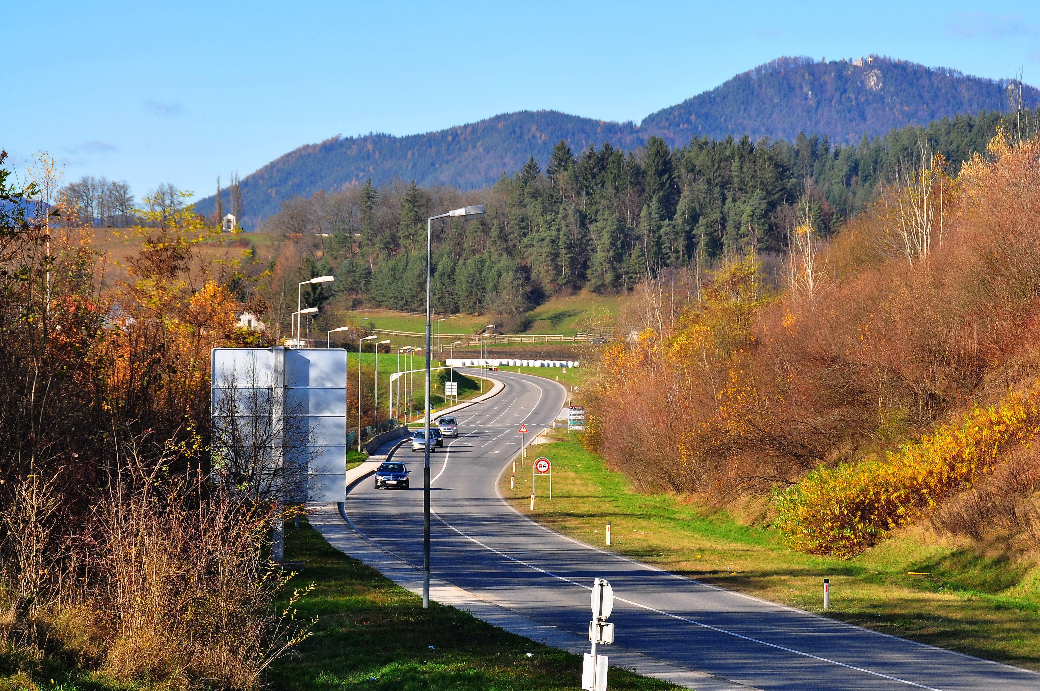 Josef Sablatnig Street near the international airport in the 9th district “Annabichl” of Klagenfurt, Carinthia, Austria